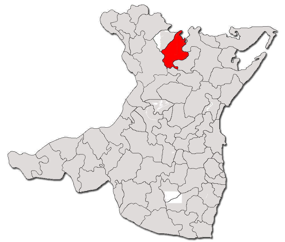 Countour map of Pantelimon commune